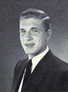 Senior class photograph of Jack Scarbath at the University of Maryland